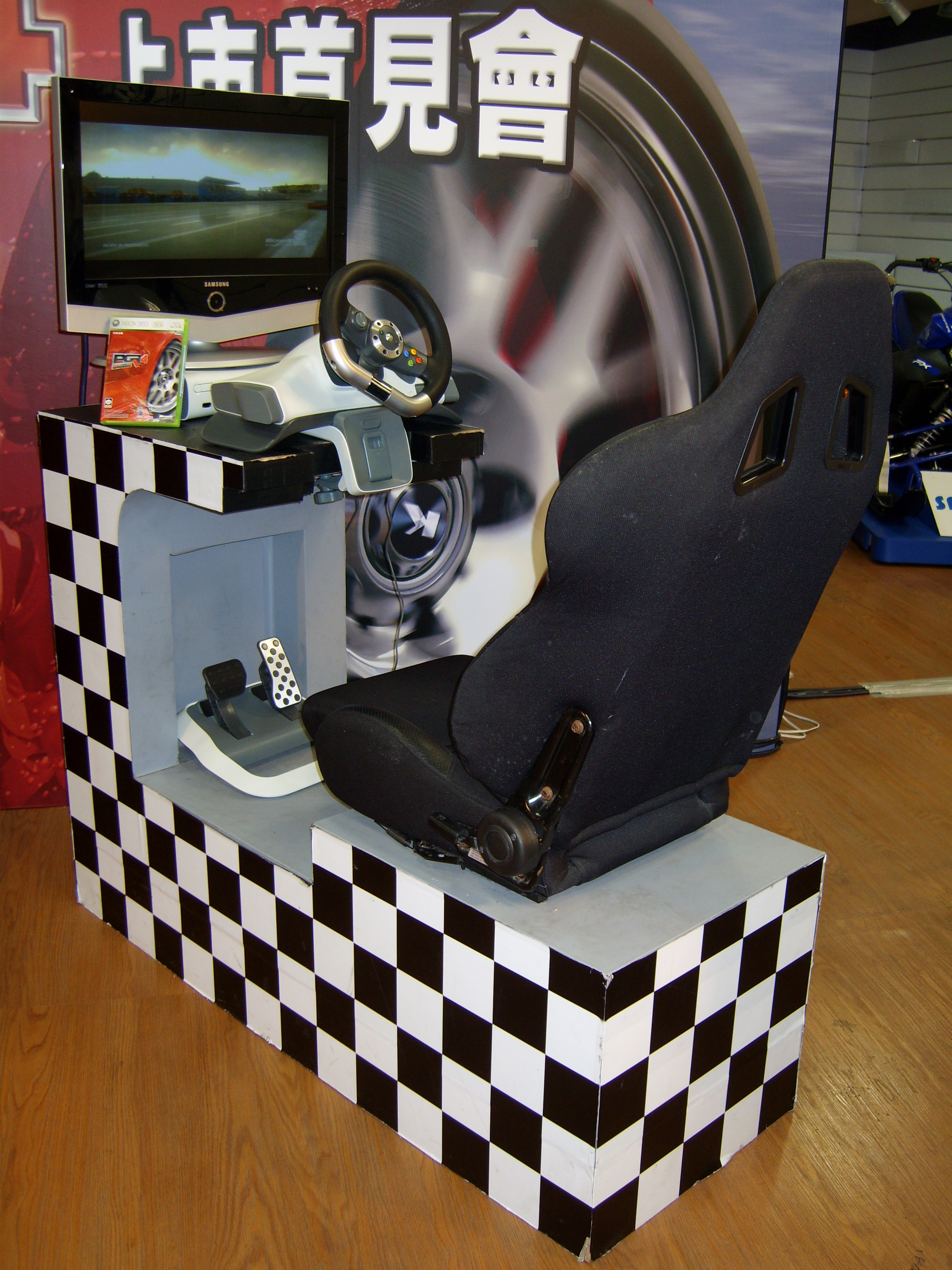 "PGR4" pre-launch in Taiwan: Full-set Gaming Equipments - Car Seat, Gaming Pedals (Acceleration and Brake), and Gaming Wheel.中文（台灣）: 「PGR4台灣上市首見會」：專業級賽車電玩的整套配備，包括專屬Xbox360賽車電玩的加速與煞車踏板、方向盤，以及擬真的汽車座椅。